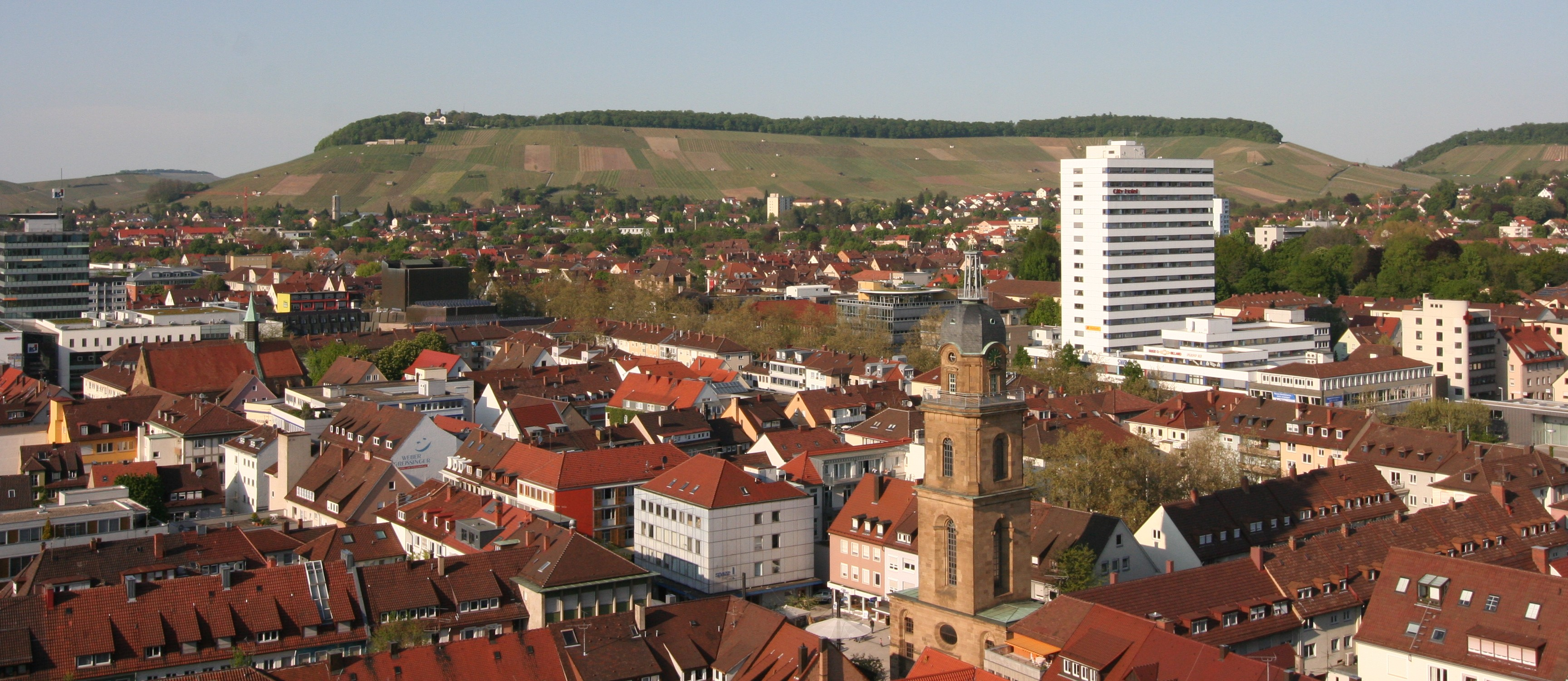 Northeastern view over Heilbronn from the west tower of the Kilianskirche